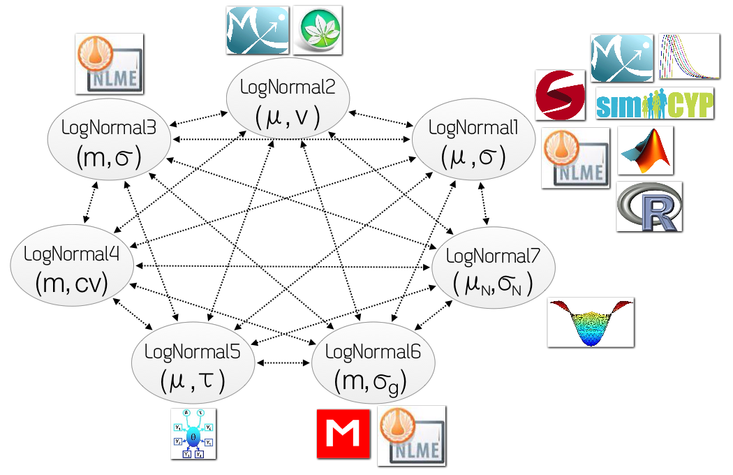 Seven parameterisations of the log-normal distribution and relationships between these different forms